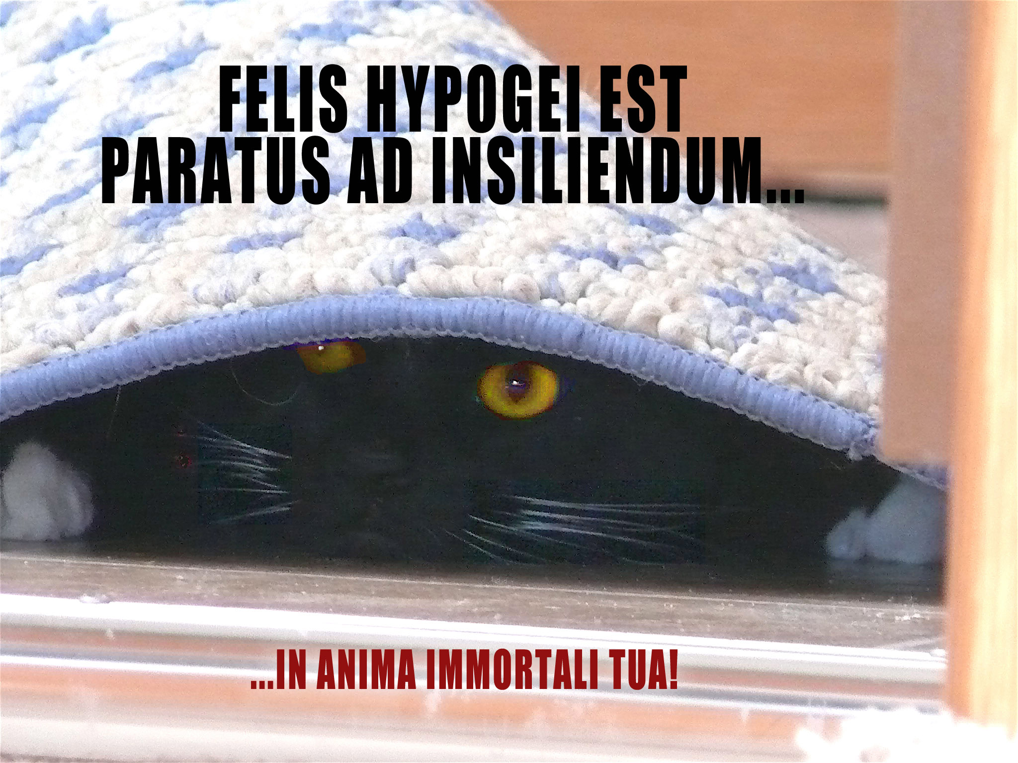 Lolcat in Latin. "Basement Cat is ready to pounce... on your immortal soul!"